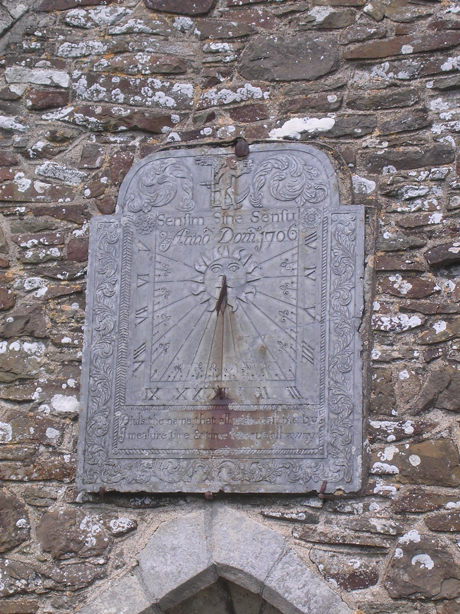 Carved slate sundial over the door of the south porch of St James the Apostle parish church, Bondleigh, Devon. The Latin motto Sensim sine sensu means "Gradually and imperceptibly". It is from a phrase by Cicero, sensim sine sensu aetas senescit, meaning "gradually and imperceptibly ageing".